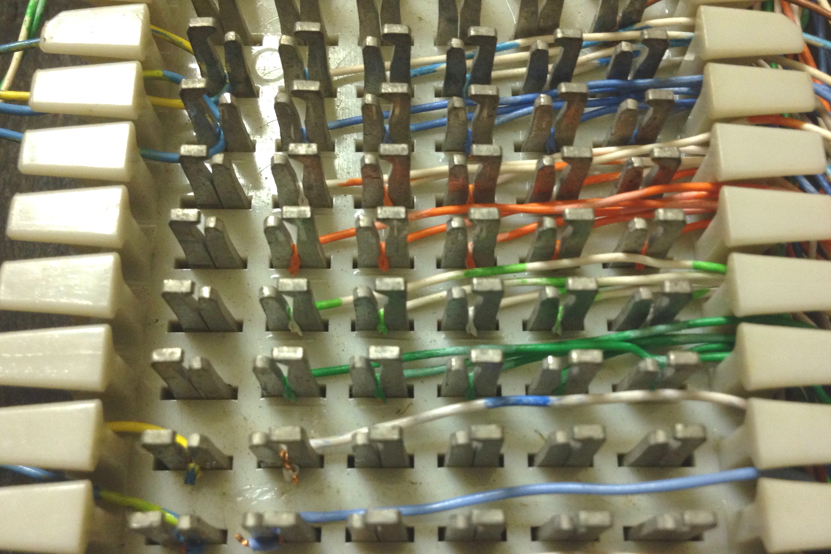 66 Block B Series with 6 clips on each row for 25 pairs. For the blue wires in this picture, jumper wires on the left are used to connect the top two blocks and the bottom two blocks. This splits the incoming pair to 6 outgoing pairs, 5 from the top blocks and 1 from the bottom blocks.